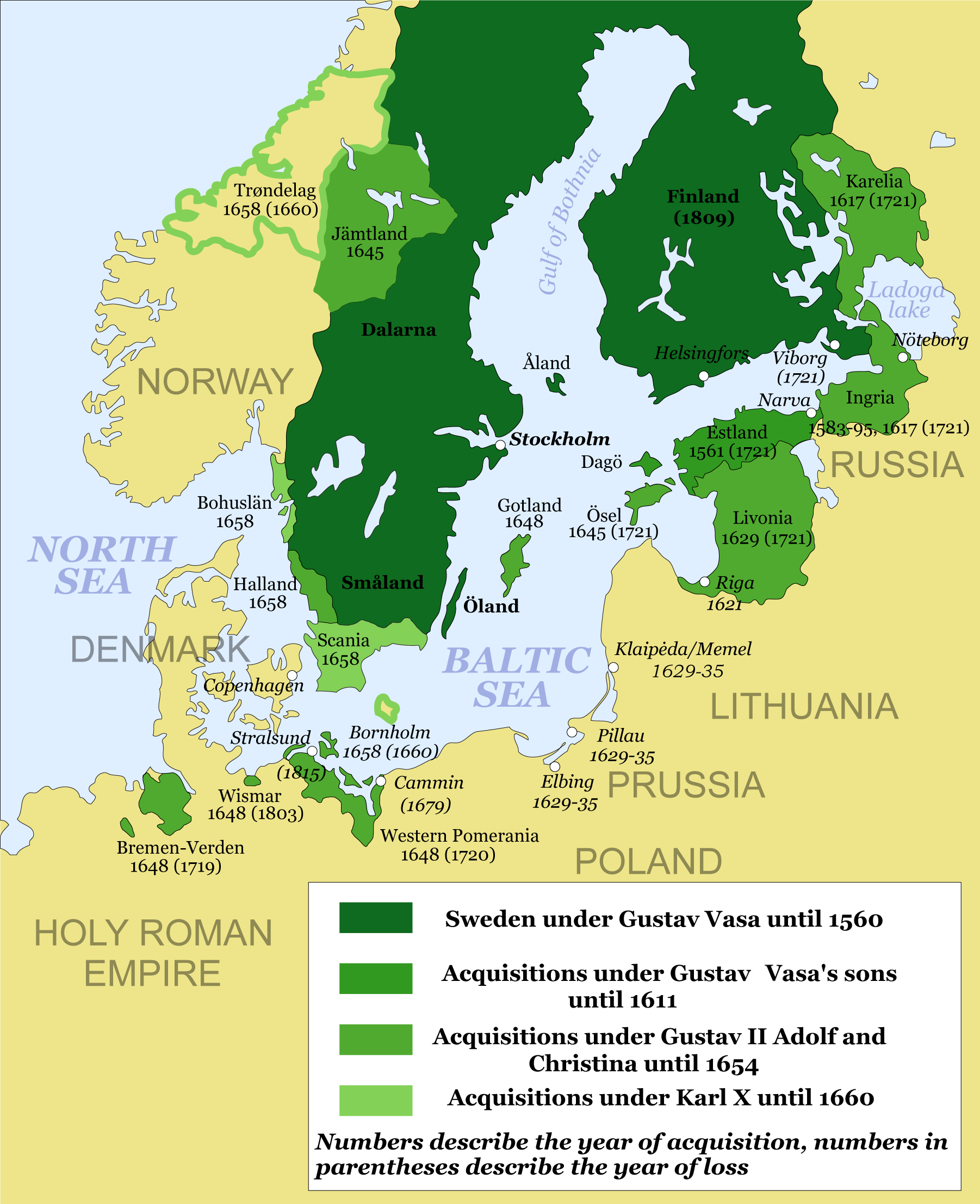 Map showing the development of the Swedish Empire in Early Modern Europe (1560-1815)